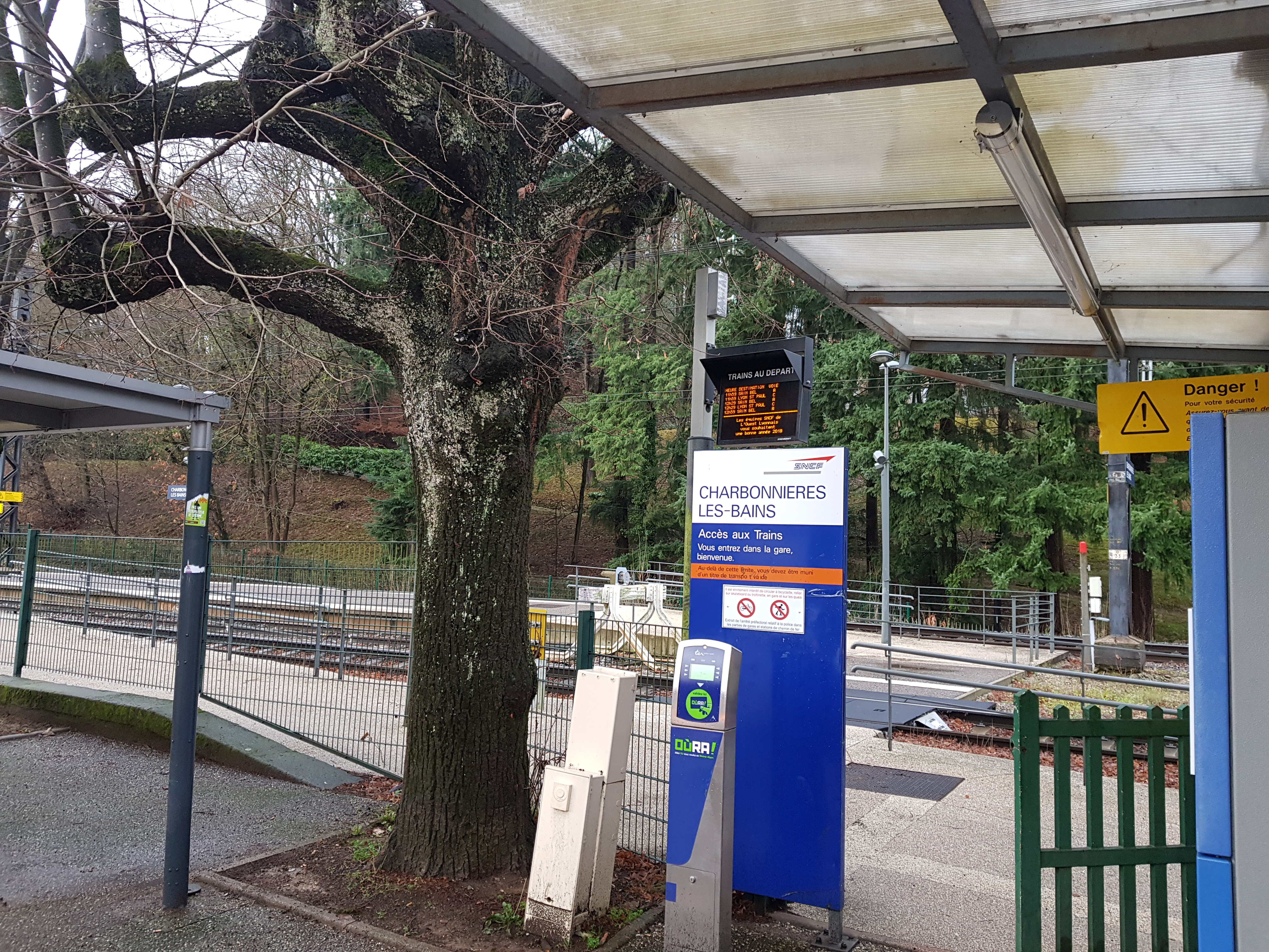 Access to the platforms